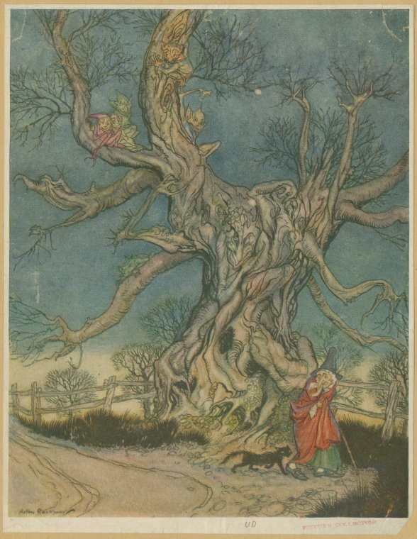 Major André's tree - Illustration for Washington Irving's short story The Legend of Sleepy Hollow, by Arthur Rackham (1867-1939).